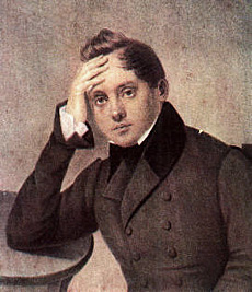 Evgeny Baratynsky. Portrait from the 1820s.